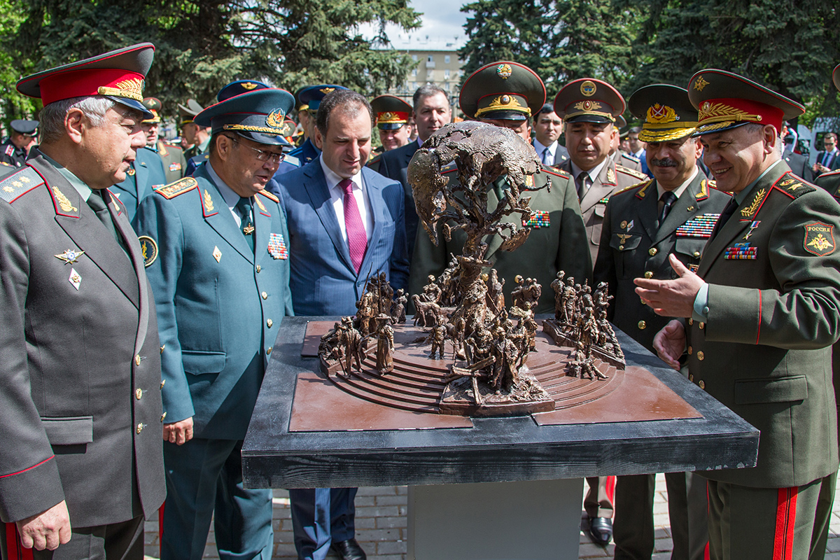 The ceremony of the anniversary session of the Council of the CIS Defence Ministers in May 2017.